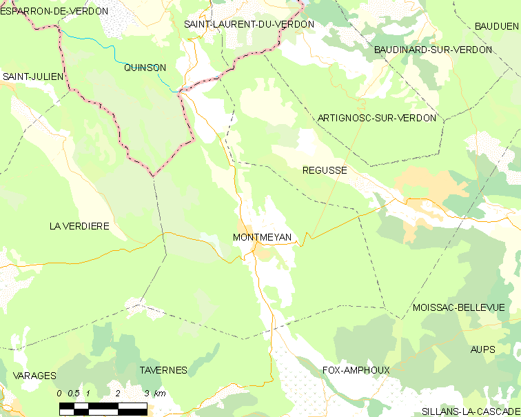 Map of French municipality Montmeyan